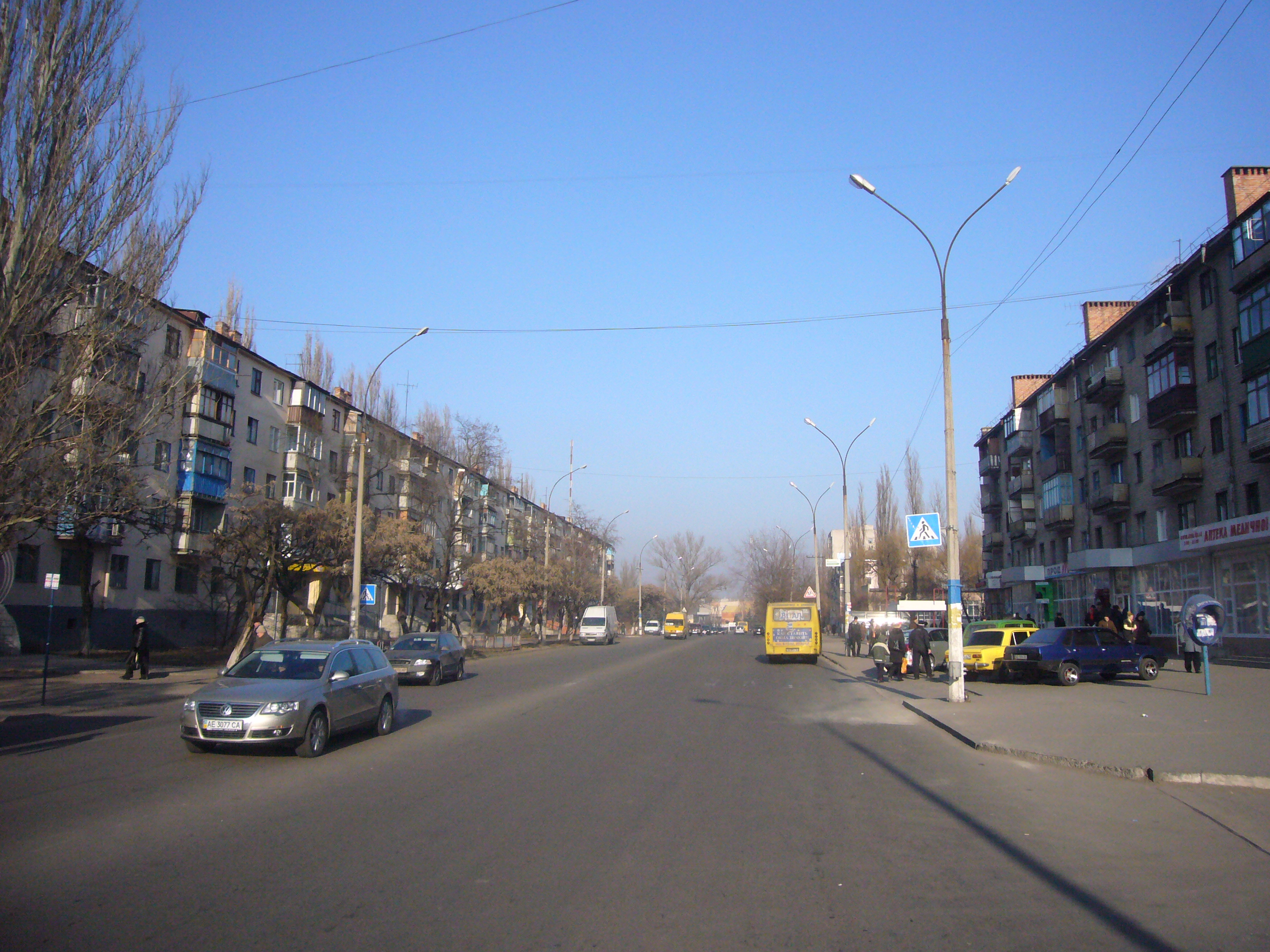 Karl Marx Street in Pavlohrad, Dnipropetrovsk Oblast, Ukraine.